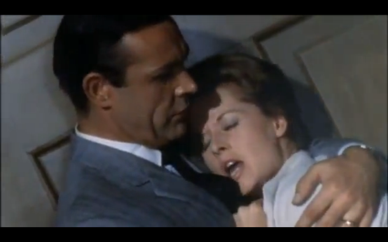 Tippi Hedren and Sean Connery in Hitchcock's "Marnie" trailer.